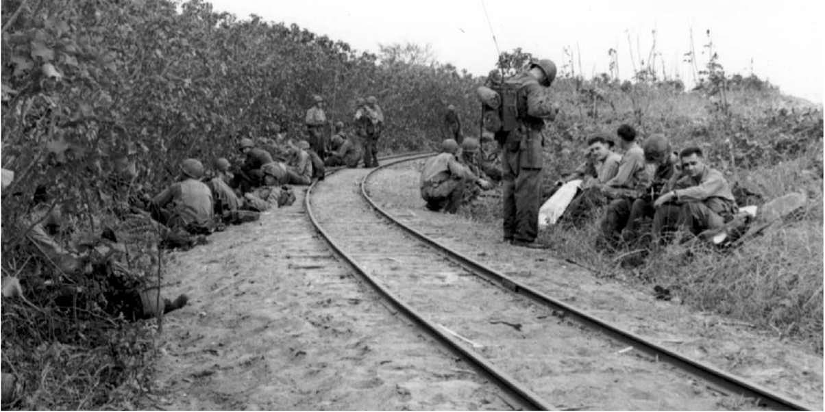 Troops resting beside the narrow gauge Japanese railroad on Saipan